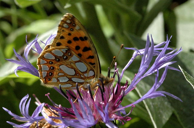 Picture taken in Commanster, Belgian High Ardennes . Species: Issoria lathonia